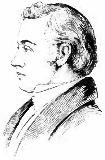 Portrait drawing of United States abolitionist printer/martyr, Elijah P. Lovejoy.